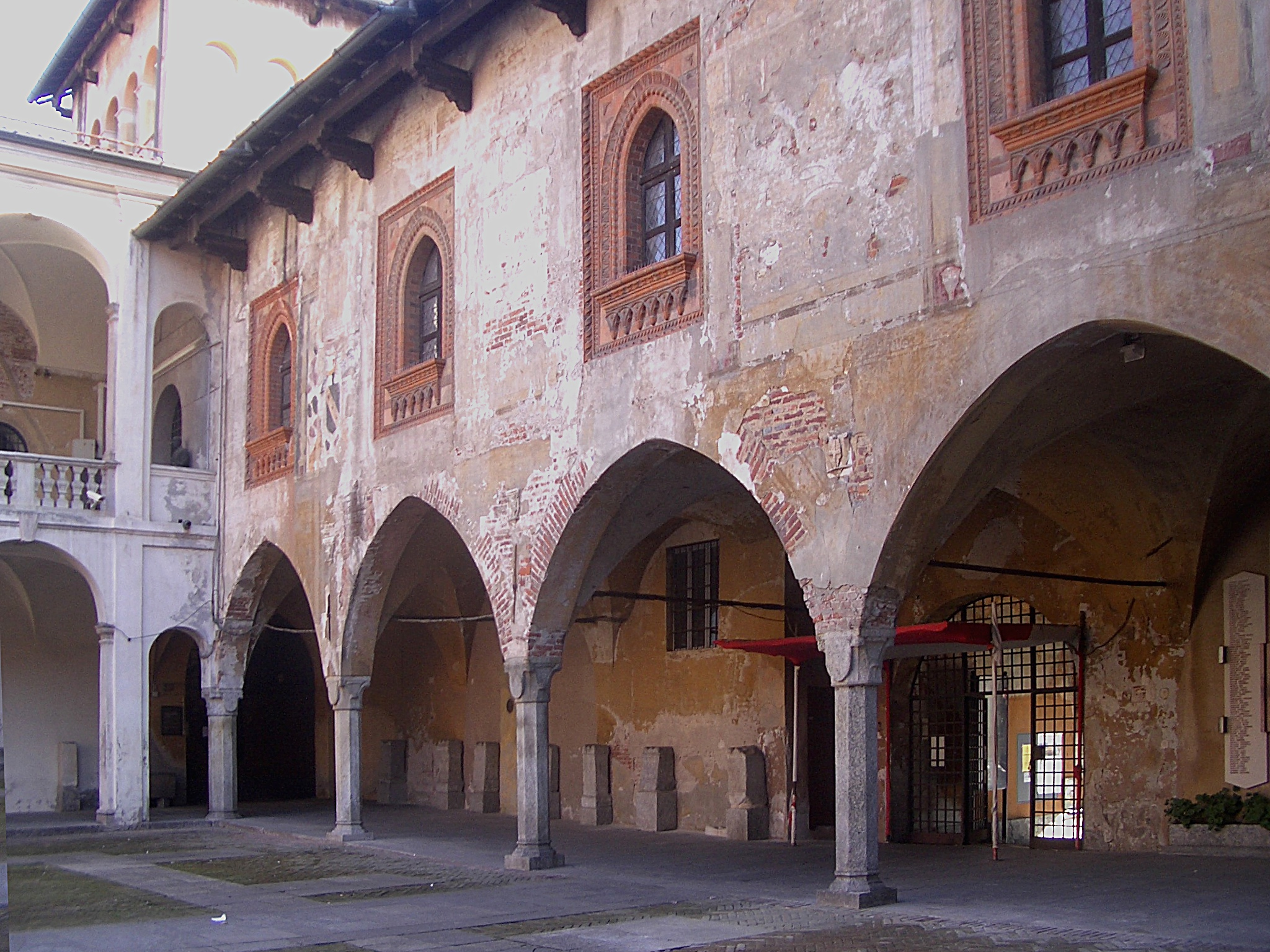 Novara, Broletto (medieval site where justice was administered)